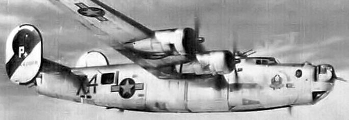 Consolidated B-24J-145-CO Liberator - 44-40068 492nd BG, 859th BS Transferred to 467th BG, 788th BS.named UMBRIAGO Lost Feb 17, 1945, North Sea. MACR 12431